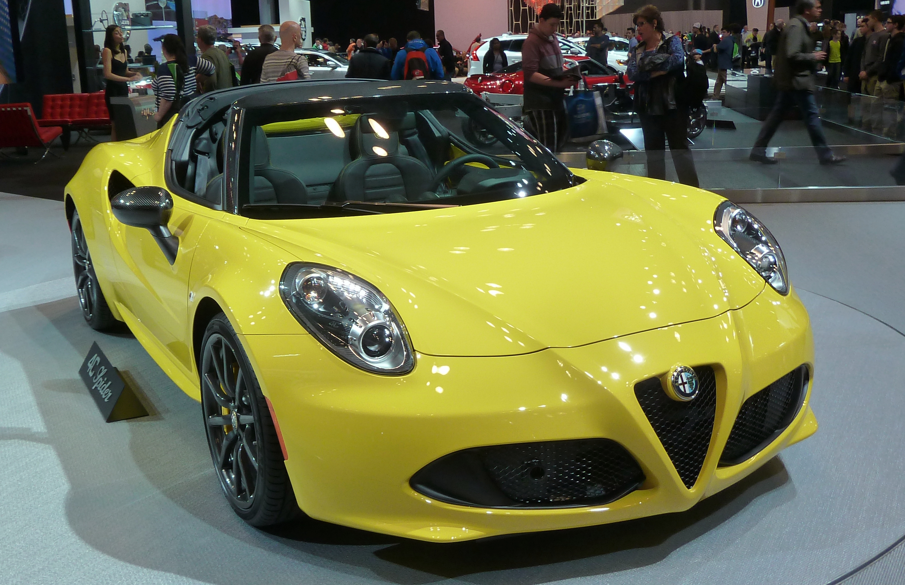 Alfa Romeo 4C Spider at 2015 New York International Auto Show